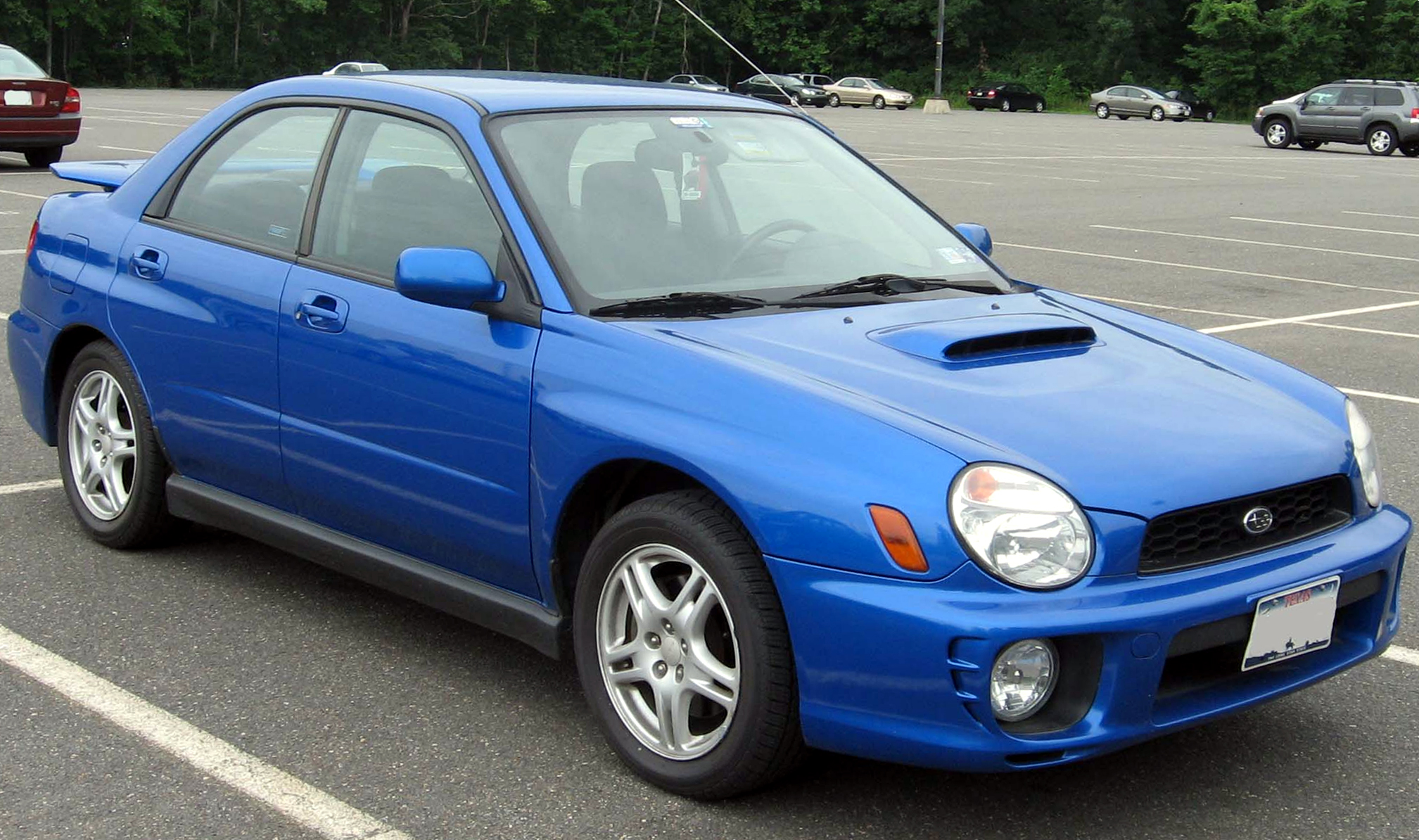 2002-2003 Subaru Impreza WRX photographed in USA.